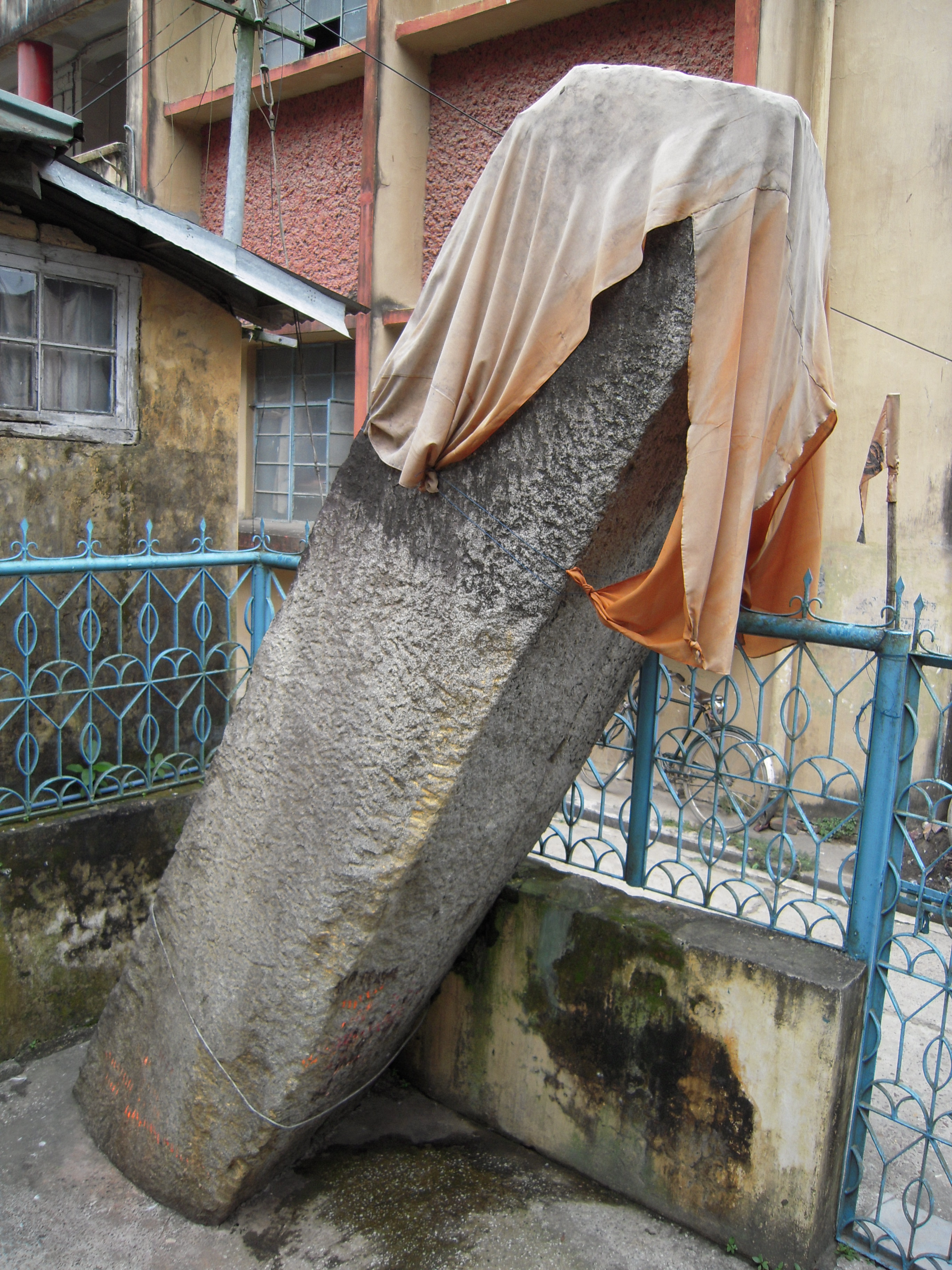 Stone missile used by Assamese magicians